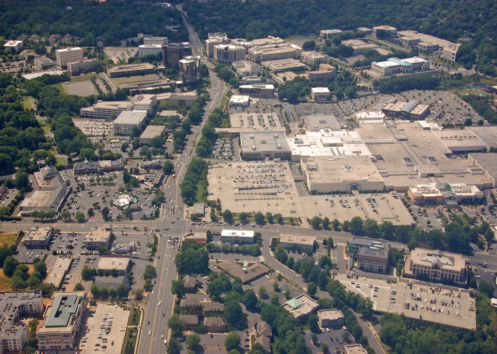 South Park Mall, Charlotte